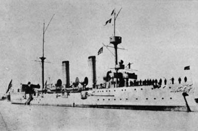 Hai Chen, a Chinese cruiser